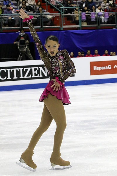 Kailani Craine at the 2016 Four Continents Championships - SP